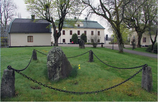 Thumb of Axel Wenner-Gren, his wife Marguerite Wenner-Gren and her sister Gene Gauntier